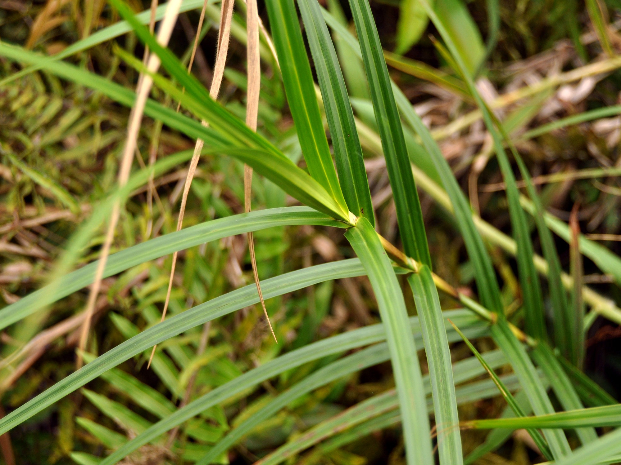 Scleria sumatrensis leaves. Rokan Hilir, Riau, Indonesia.